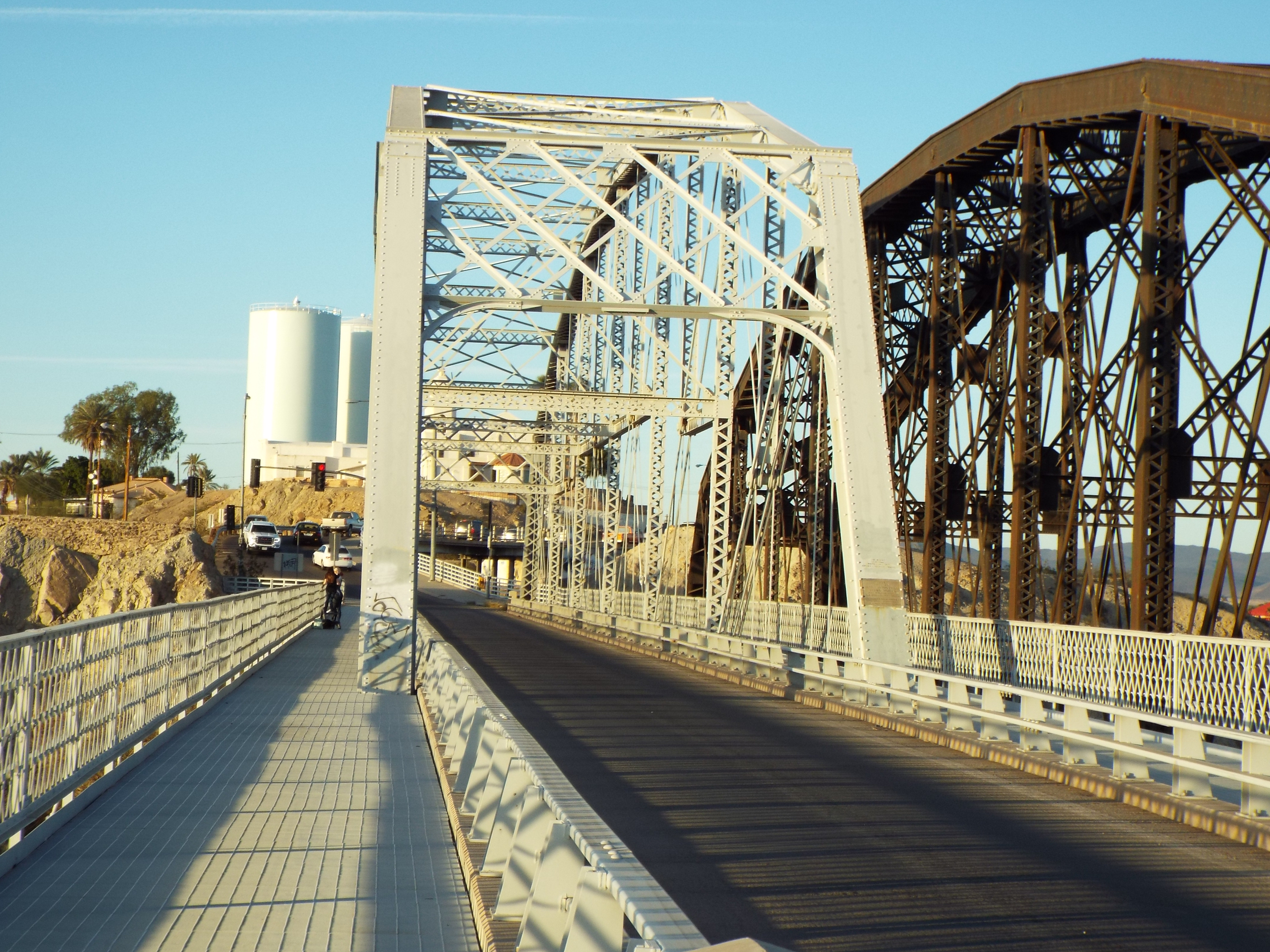 The Ocean to Ocean Bridge was built in 1915 across the Colorado River connecting Yuma, Arizona with Fort Yuma in California. It was listed in the National Register of Historic Places on September 11, 1979, reference # 79000431.